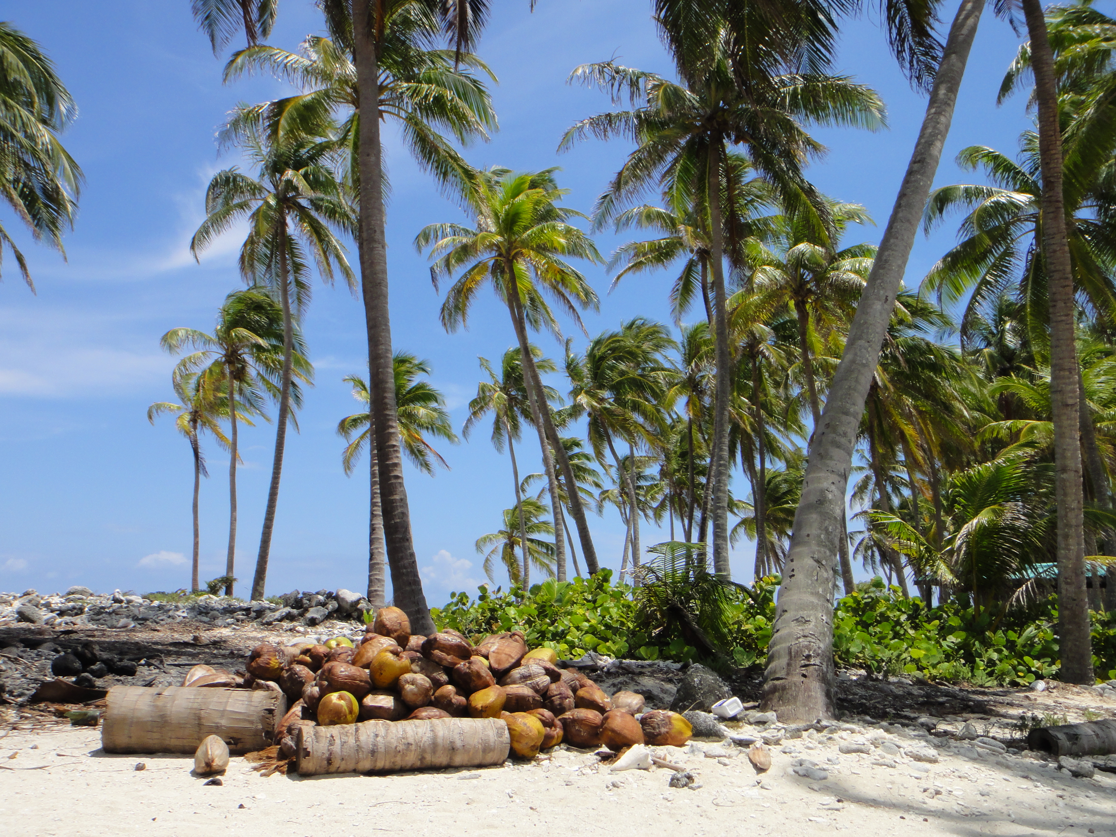 Booby Island